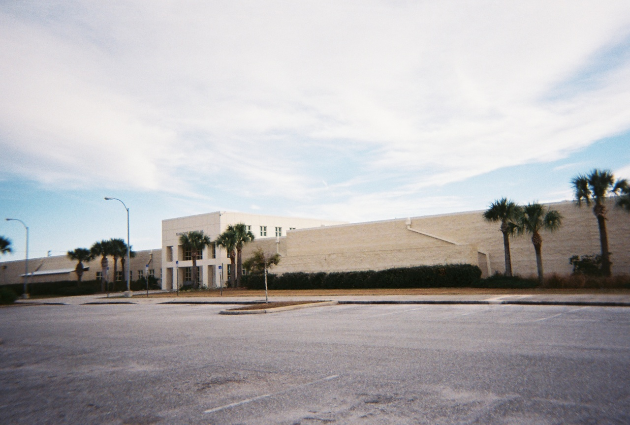 Charlotte County Jail front entrance